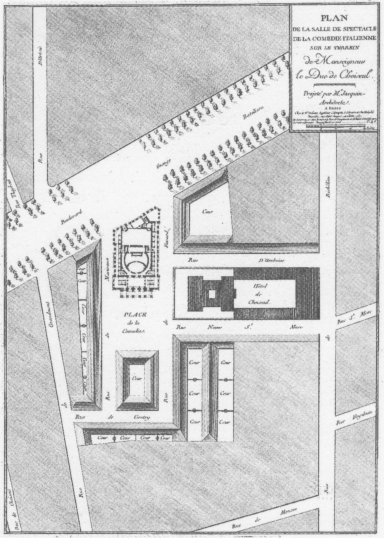 A project for a new Théâtre de l'Opéra-Comique in Paris, located on the grounds of the Hôtel de Choiseul on the rue de Richelieu